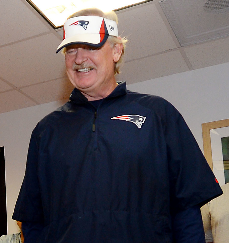 New England Patriots wide receiver Julian F. Edelman, left, defensive lineman Joe Vellano and special teams coach Scott O’Brien share a laugh with a patient at Naval Medical Center San Diego. The Patriots visited the hospital to boost morale for patients and staff members before the team's game against the San Diego Chargers Sunday at Qualcomm Stadium. (U.S. Navy photo by Mass Communication Specialist 3rd Class Pyoung K. Yi/Released)